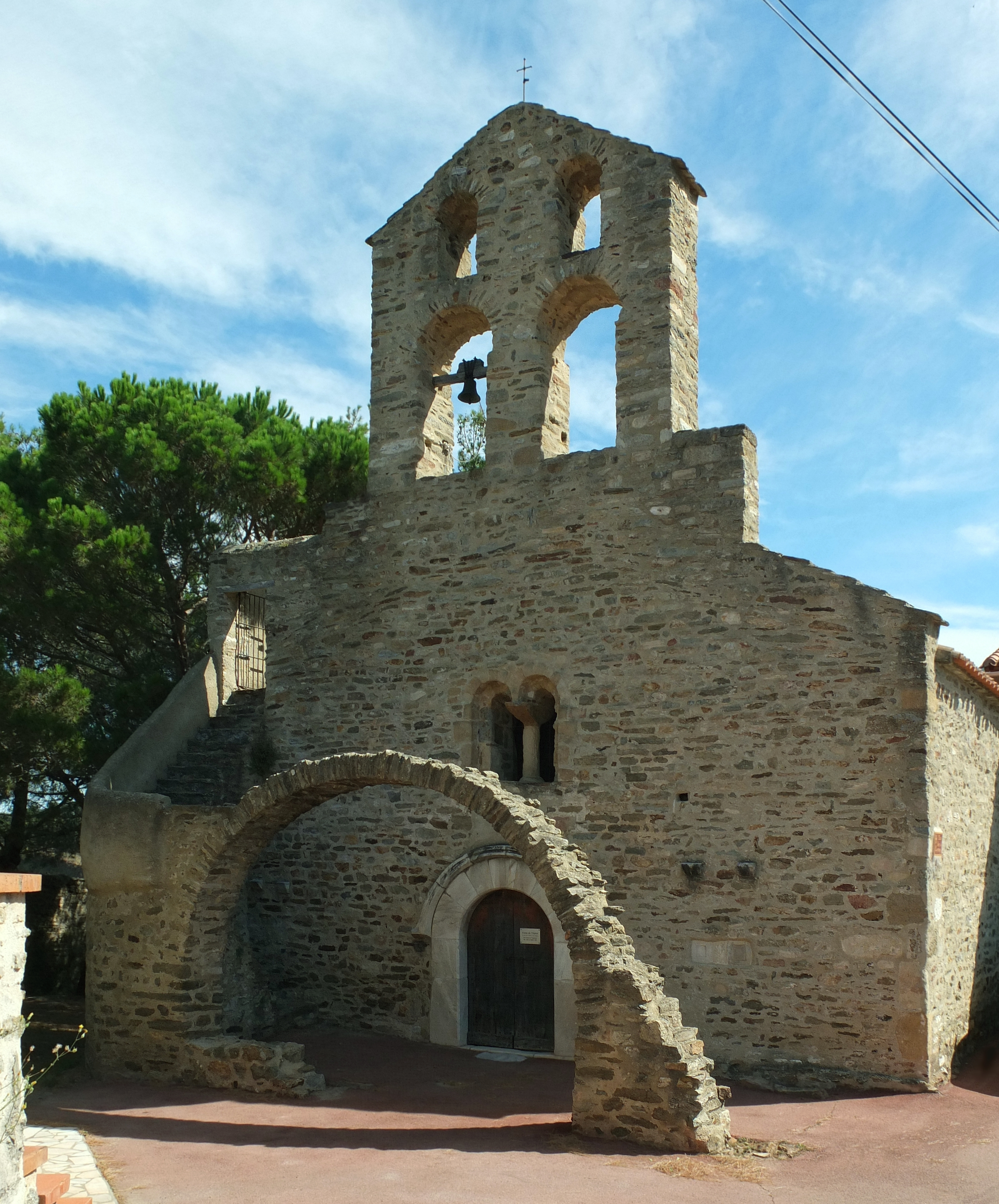 Église Sainte-Marie des Cluses, Roussillon, France (view SW).